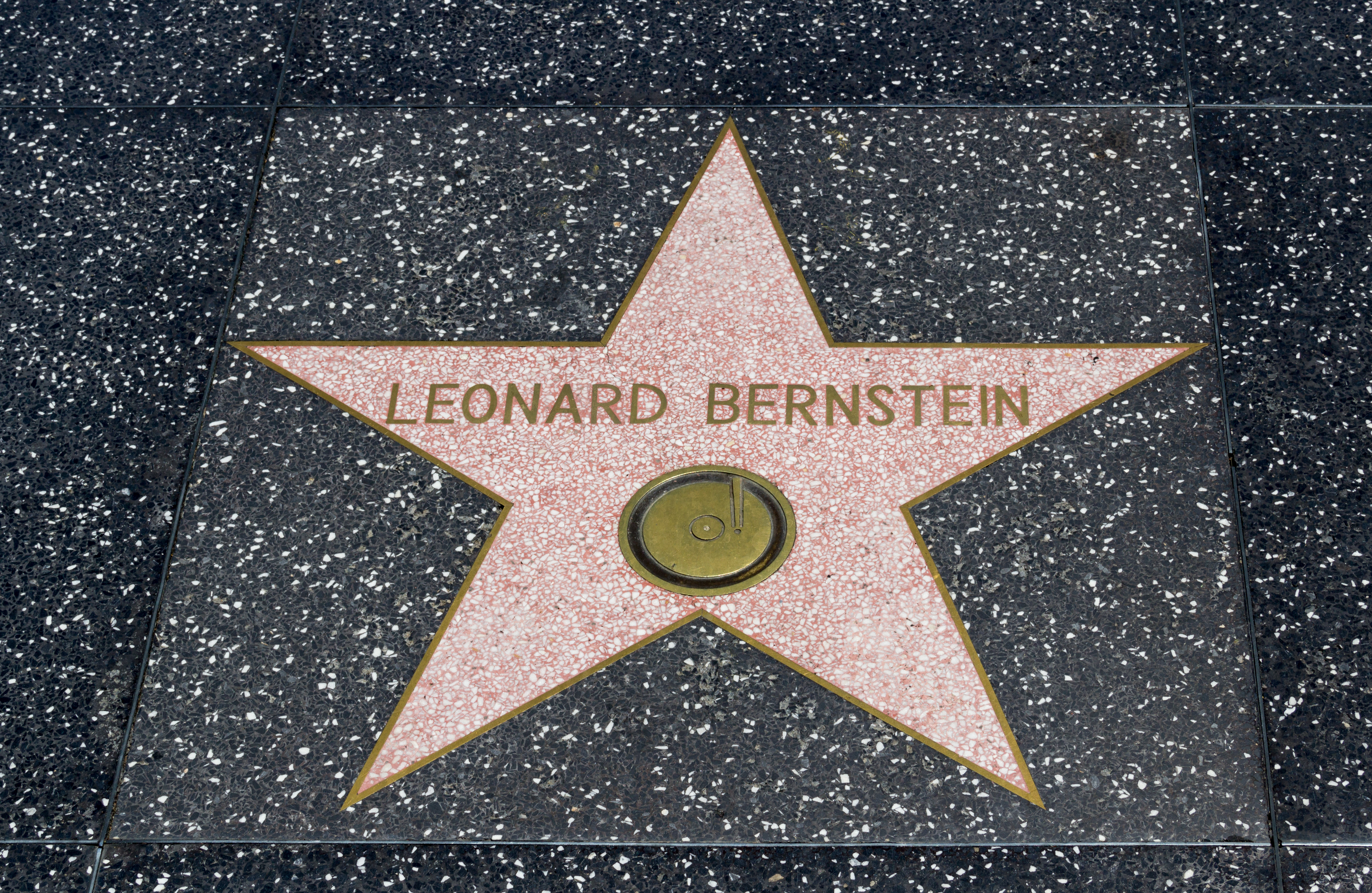 Star “Leonard Bernstein” at the Hollywood Walk of Fame, Los Angeles, California